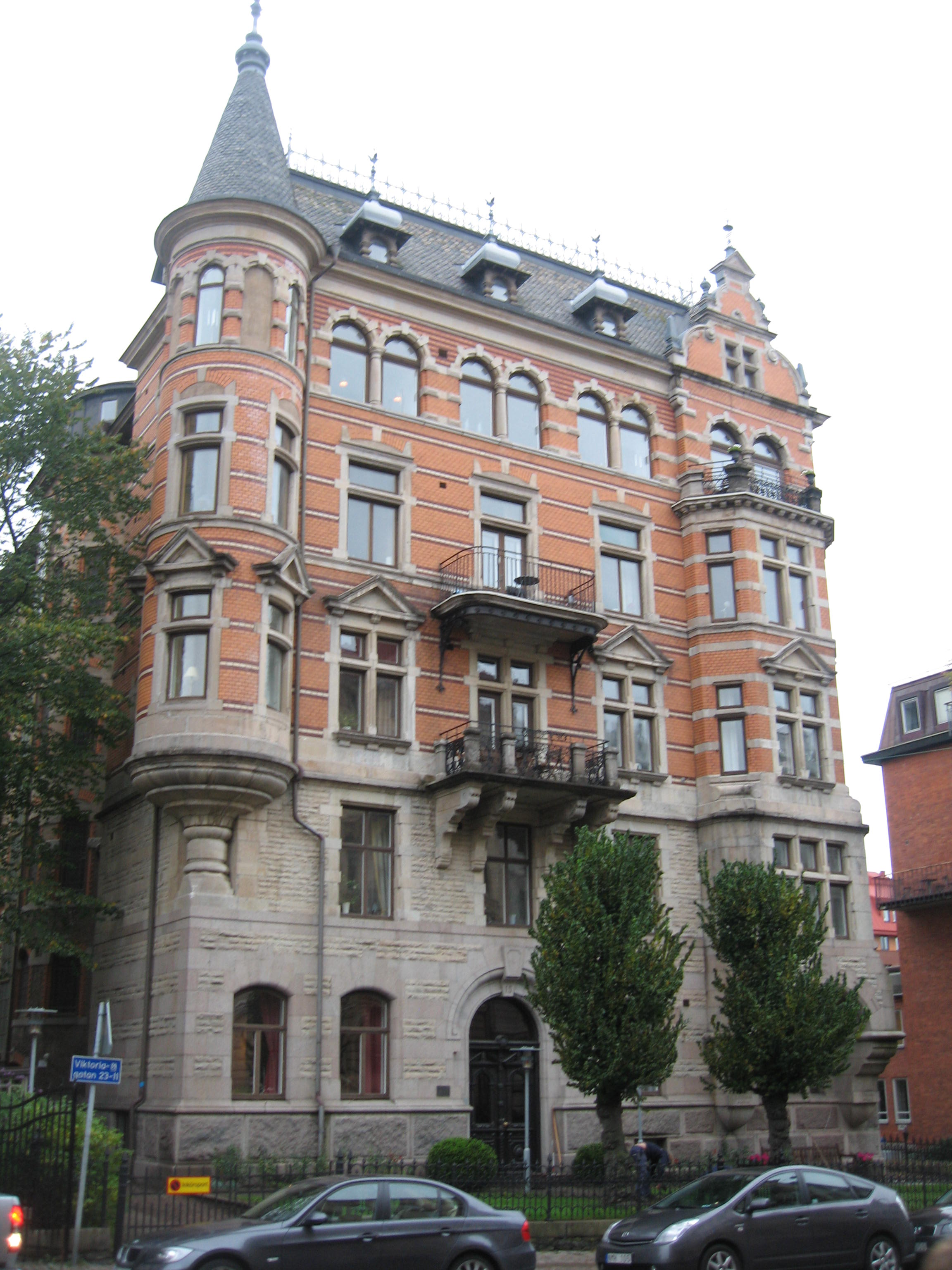 Building at Viktoriagatan 15 in Göteborg, Sweden. The building was designed by architect Carl-Fredrik Ebeling.